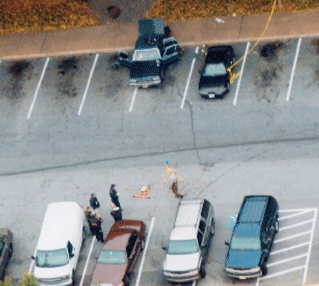 An aerial view of the rest stop in which the D.C. snipers were captured in, in October 2002. The 1990 Chevrolet Caprice driven by them is visible.